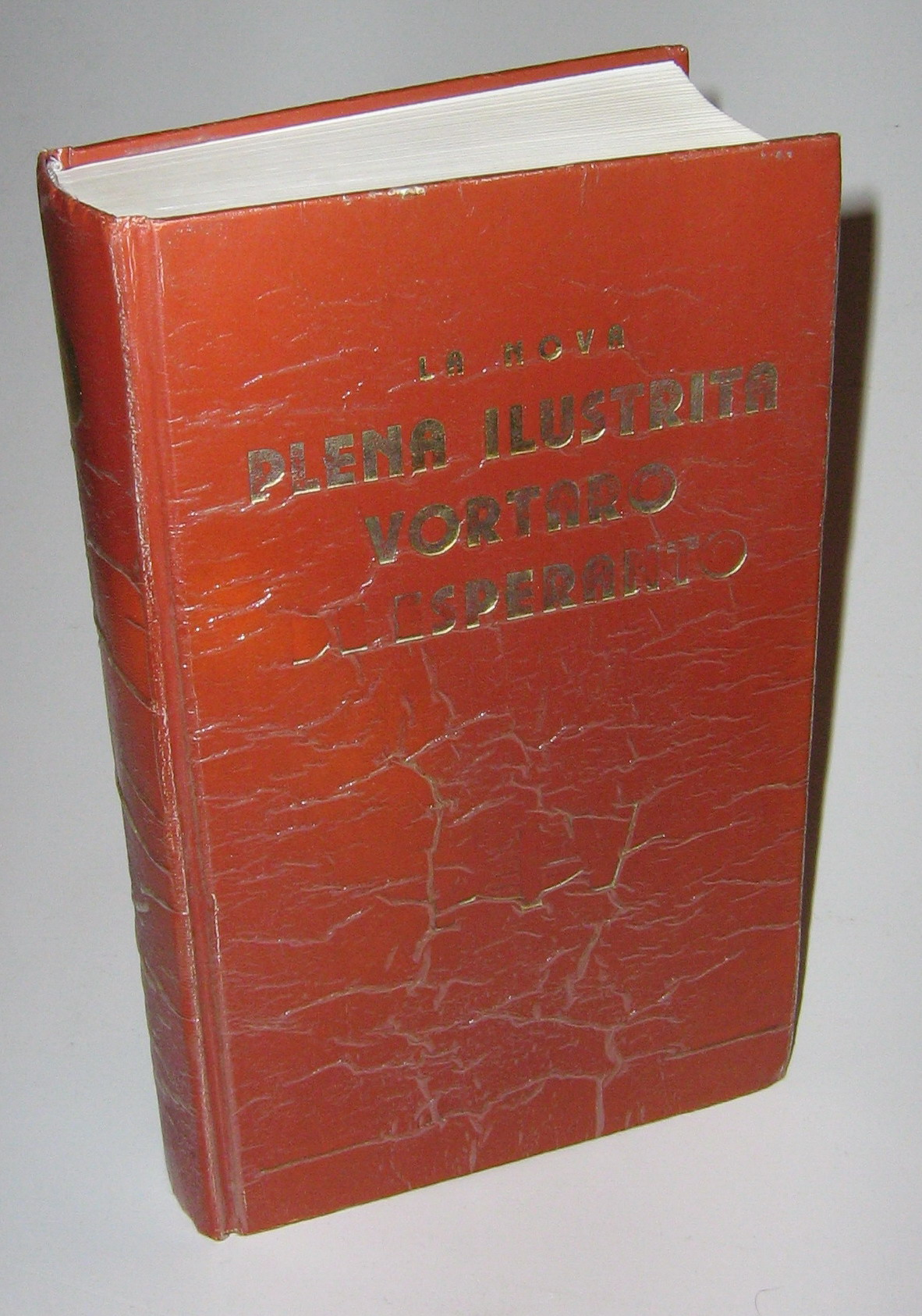 La Nova plena ilustrita vortaro de Esperanto (the biggest Esperanto-dictionary)